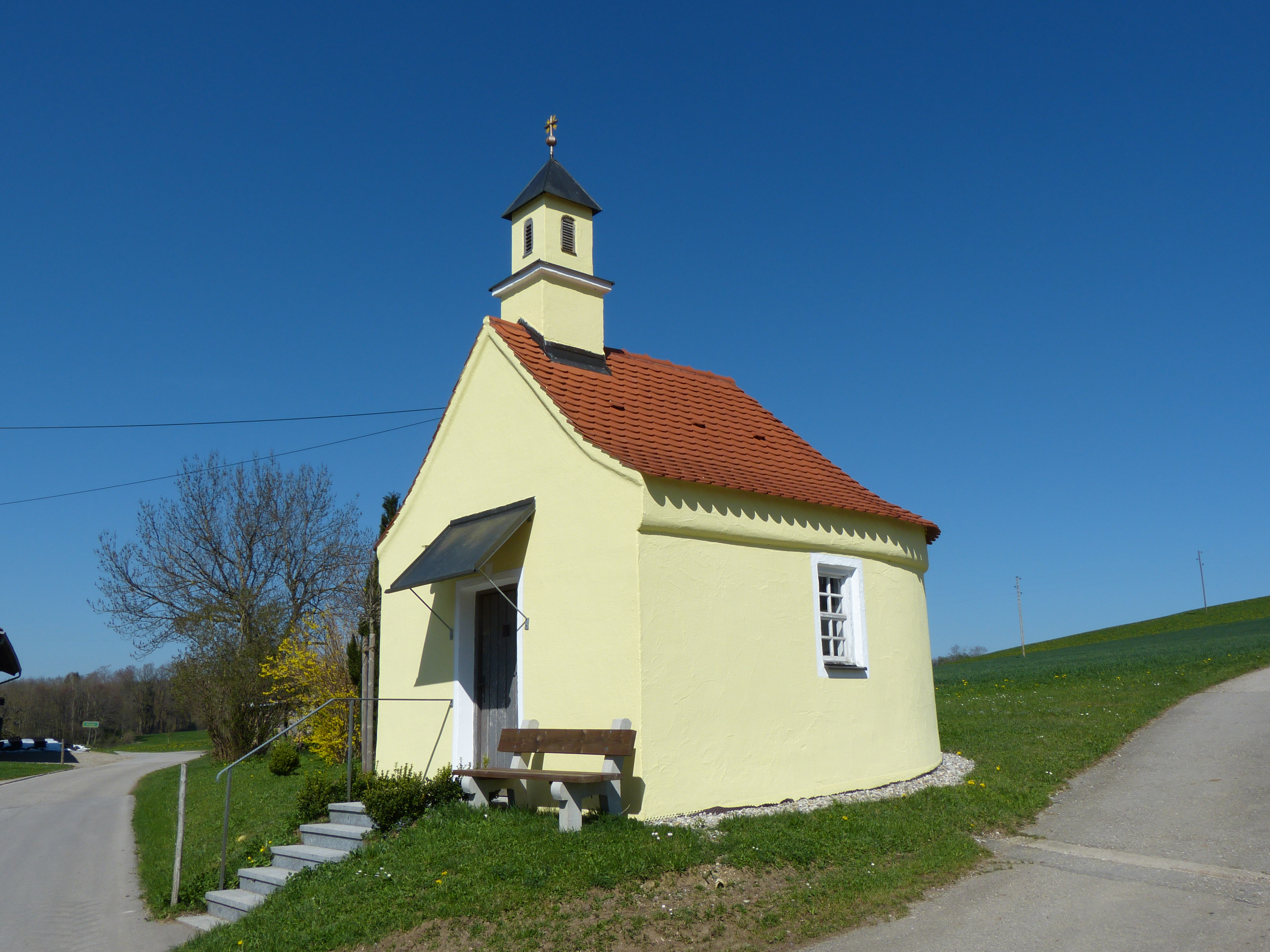 Chapel St. Wendelin in Gronau, Landkreis Unterallgäu, Bavaria